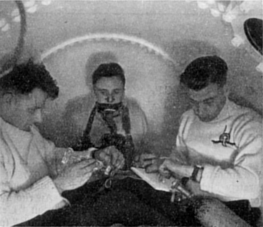 Subject breathing oxygen under pressure. Testing for oxygen toxicity in divers by UK Government 1942–3.